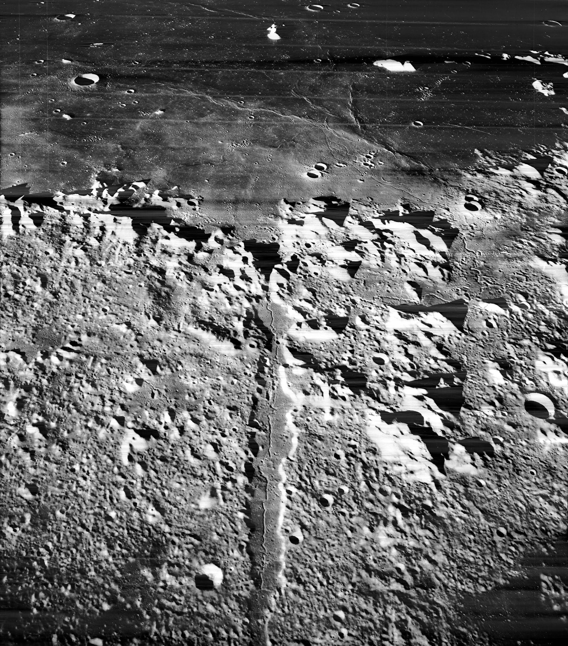 Oblique view of Vallis Alpes (Alpine Valley) on the moon, from Lunar Orbiter 5. Mare Imbrium is in the background.